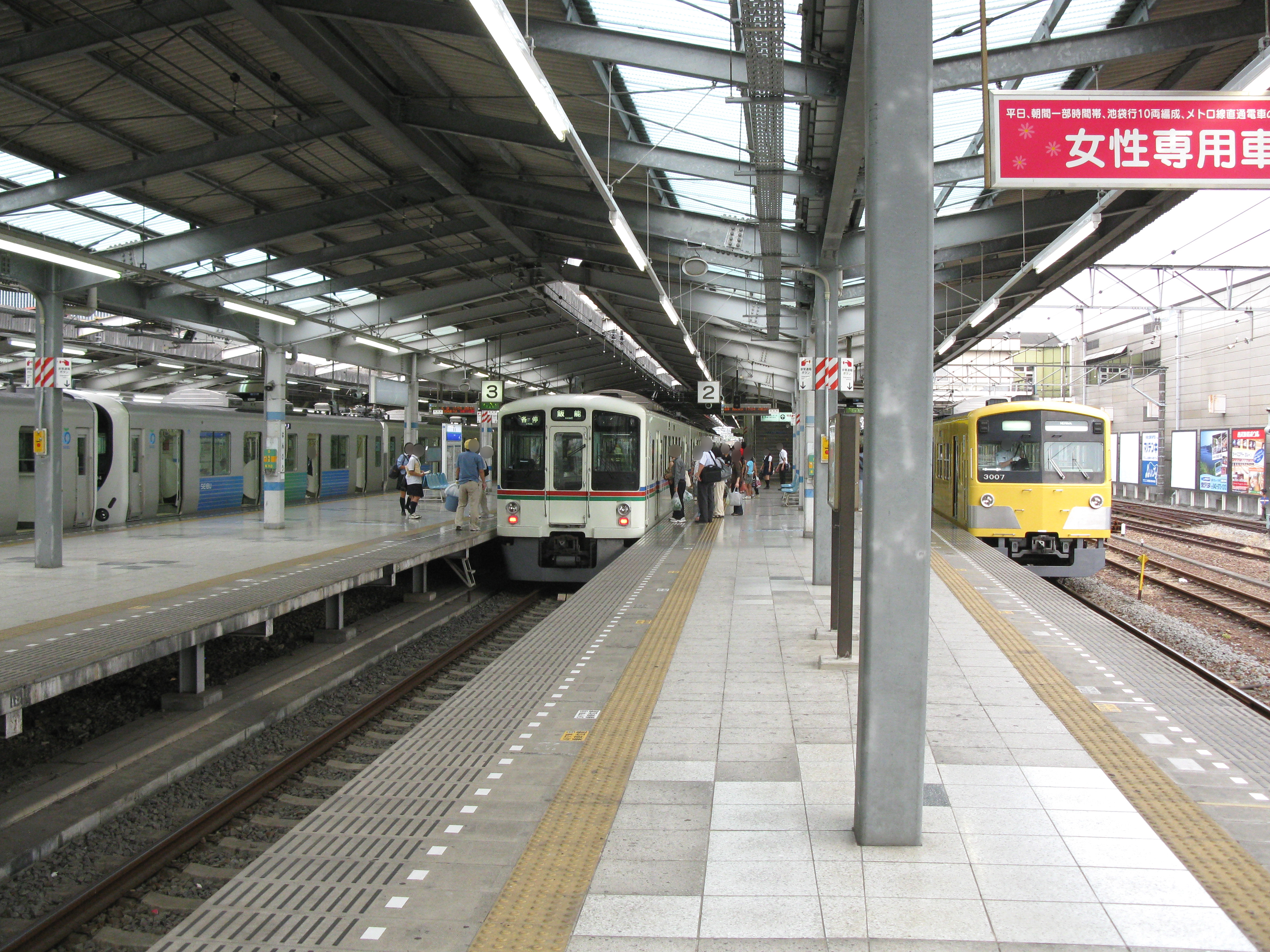 View of the platforms at Hannō Station on the Seibu Ikebukuro Line